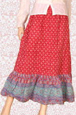 Peasant skirt